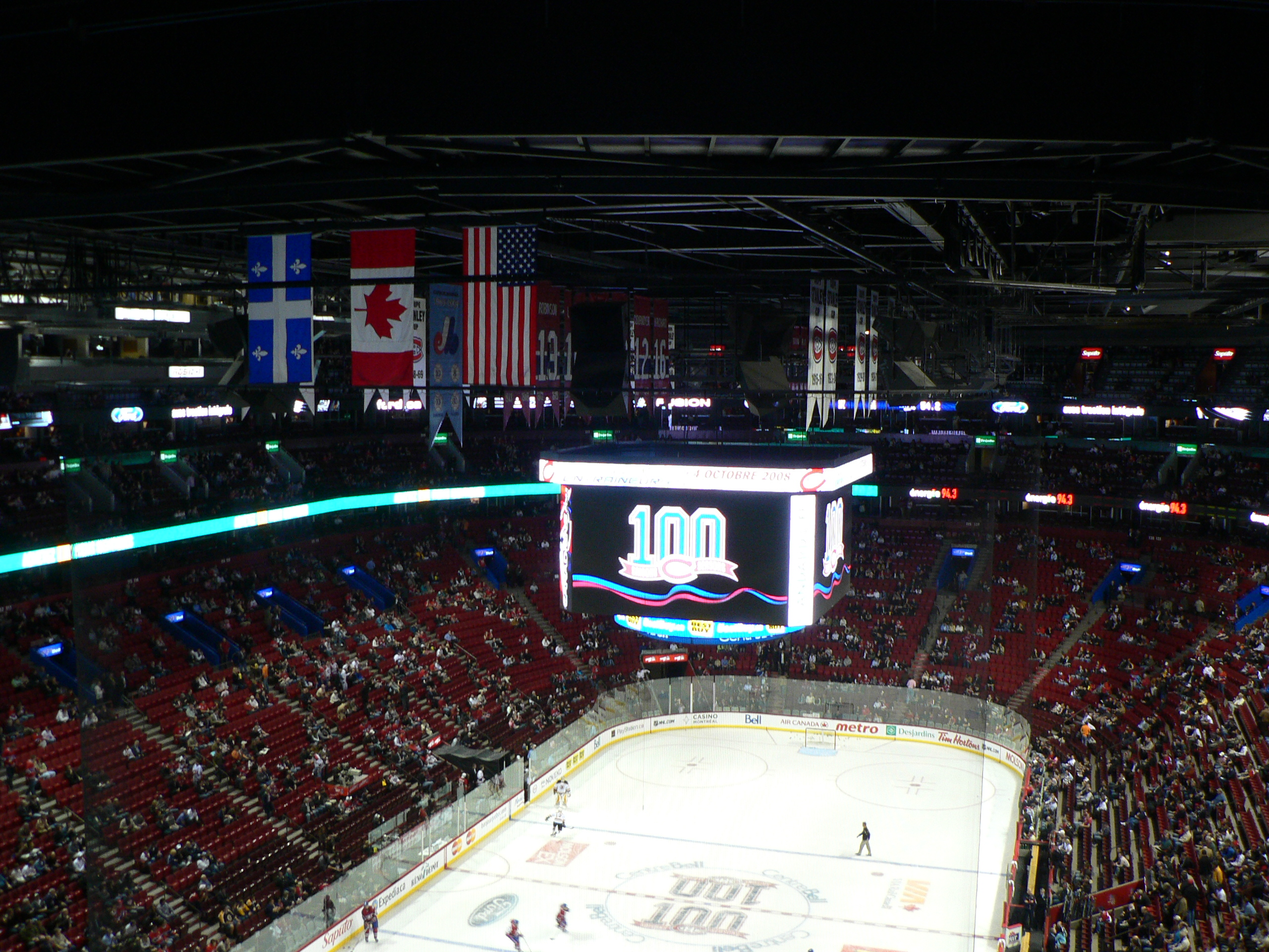 Inside the Bell Center with new scoreboard, October 1st 2008.